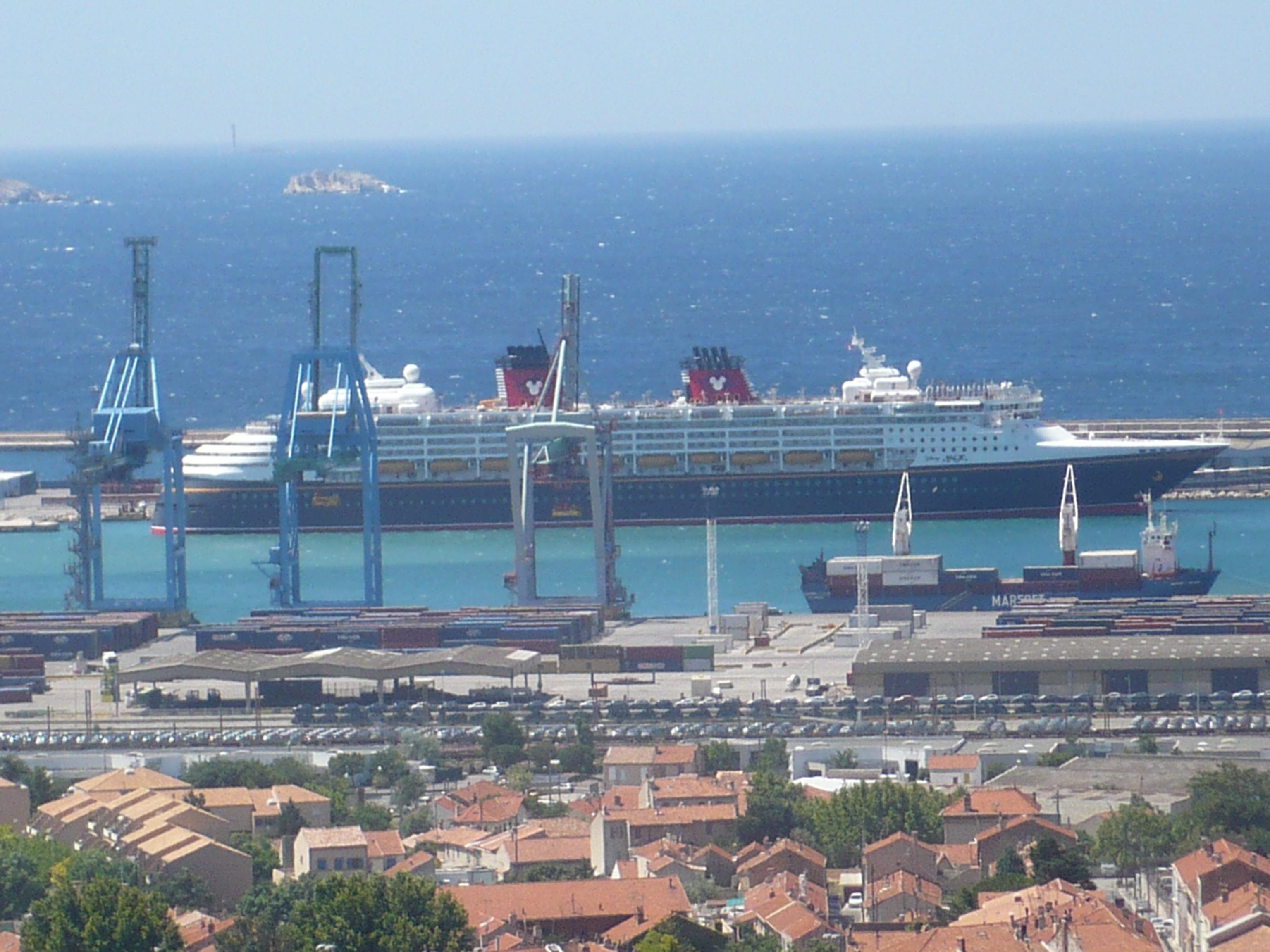 Disney Magic at Marseille's pier taken from "Grand Littoral" mall